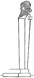 Illustration of a Greek herma